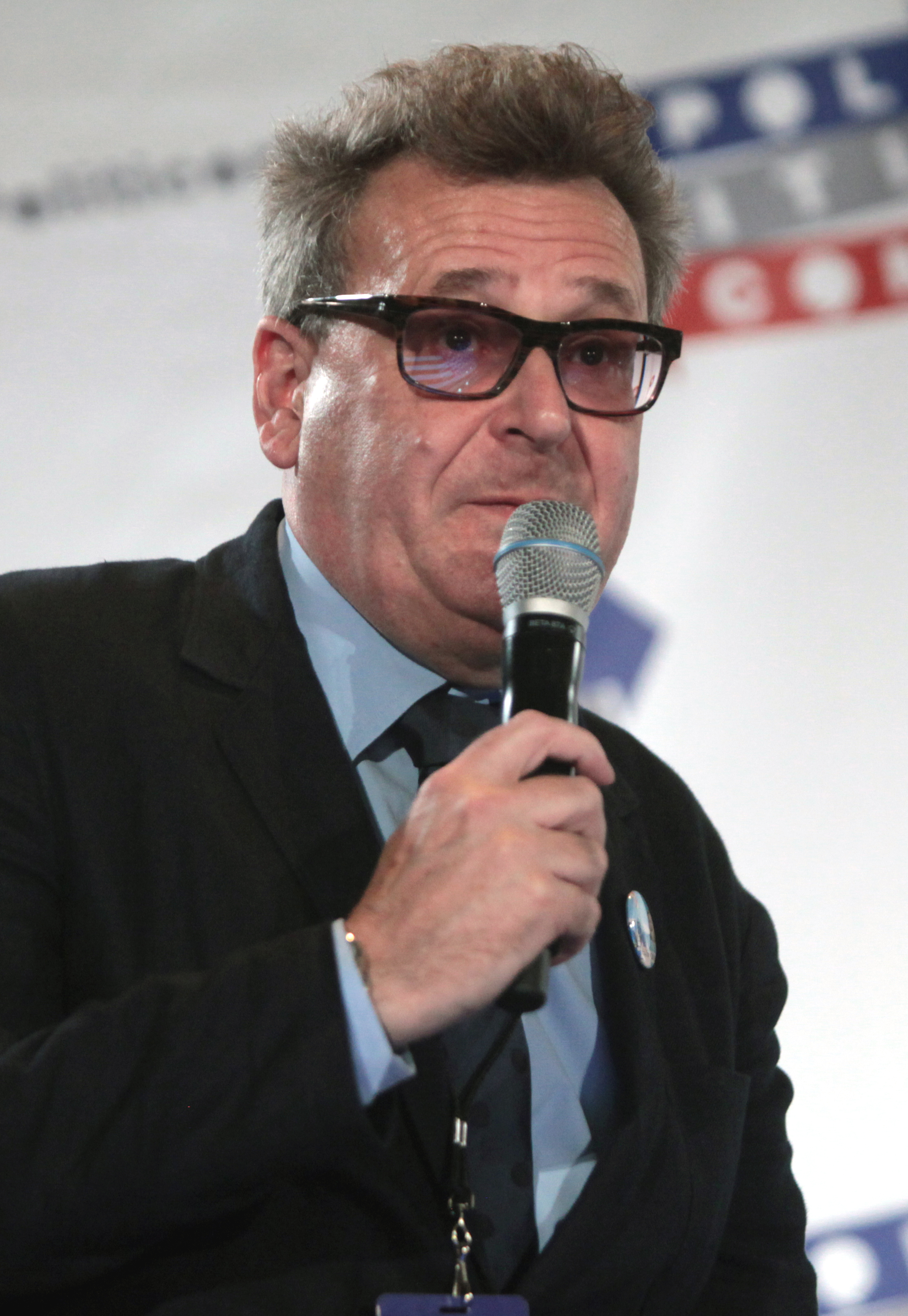 Greg Proops speaking at Politicon in Pasadena, California.